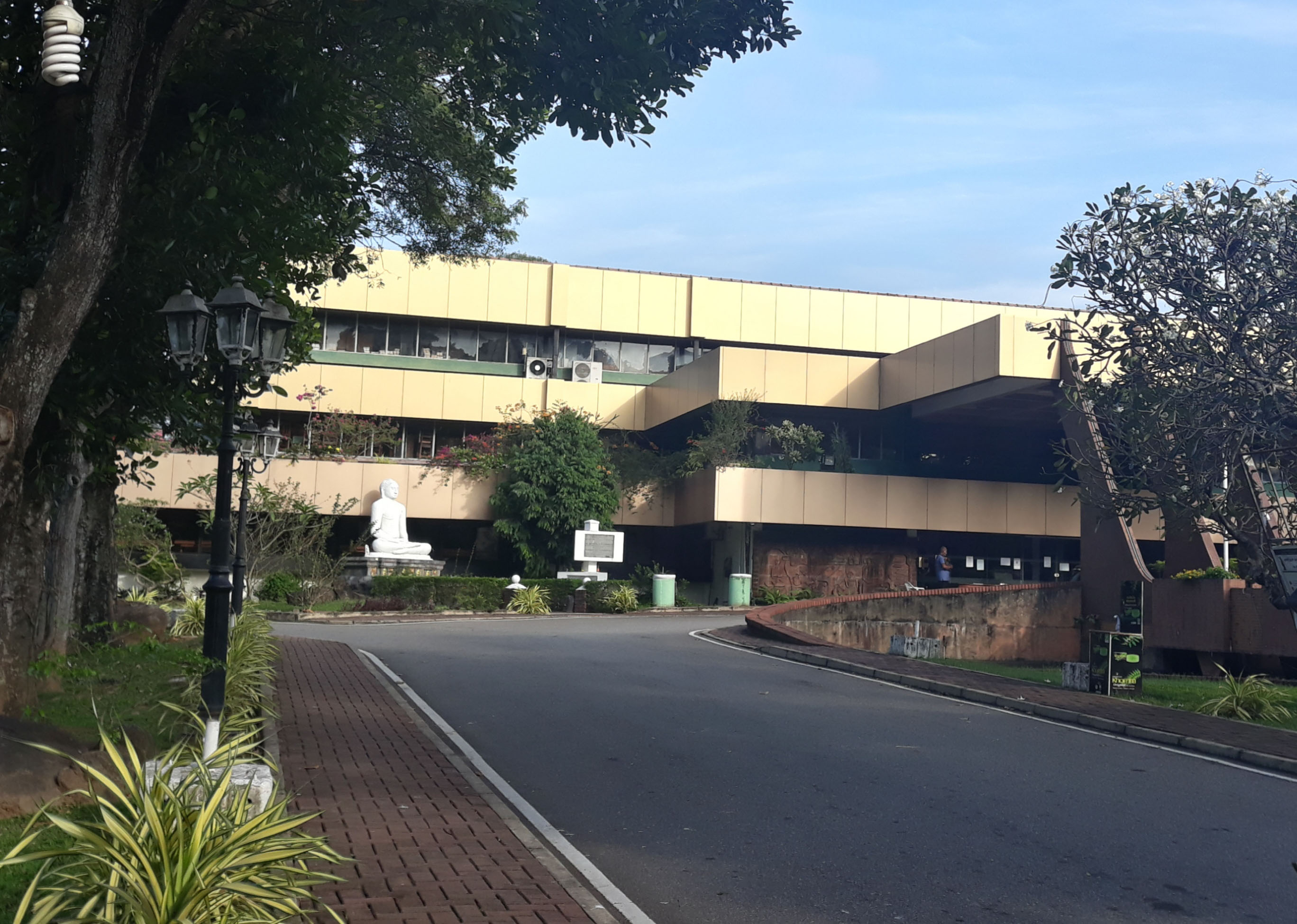 The Colombo Public Library building in Colombo, Sri Lanka. This is the largest public library in the country.